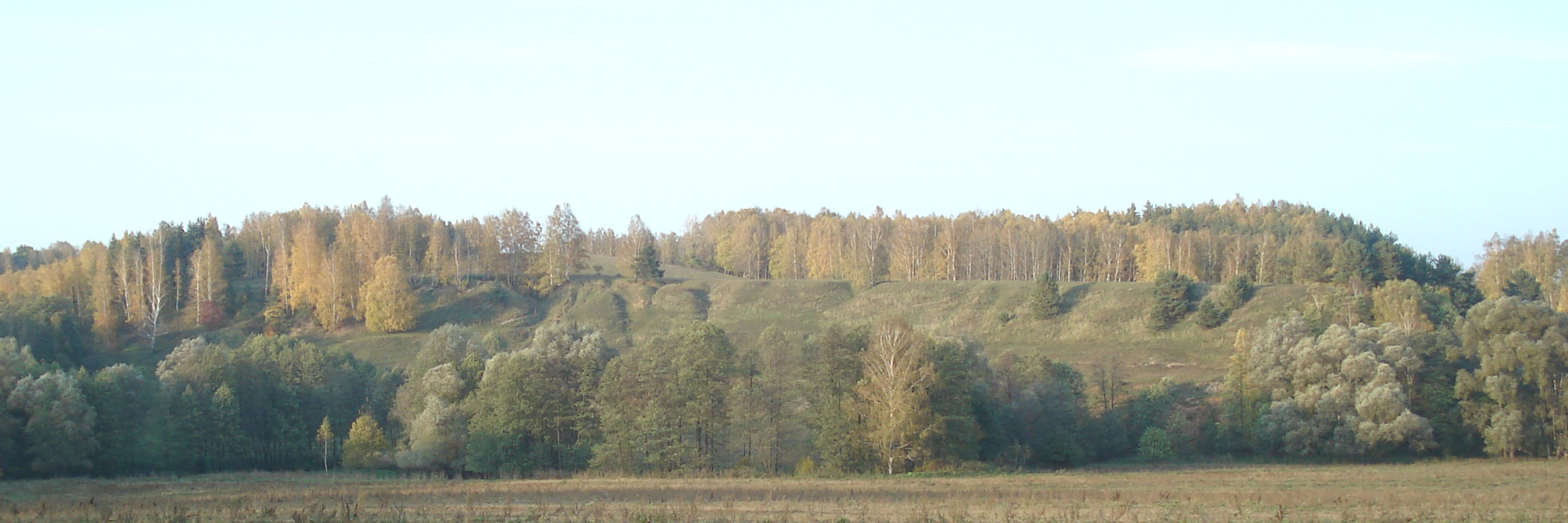 Peremilovsky Mountains. Nizhegorodskaya oblast.